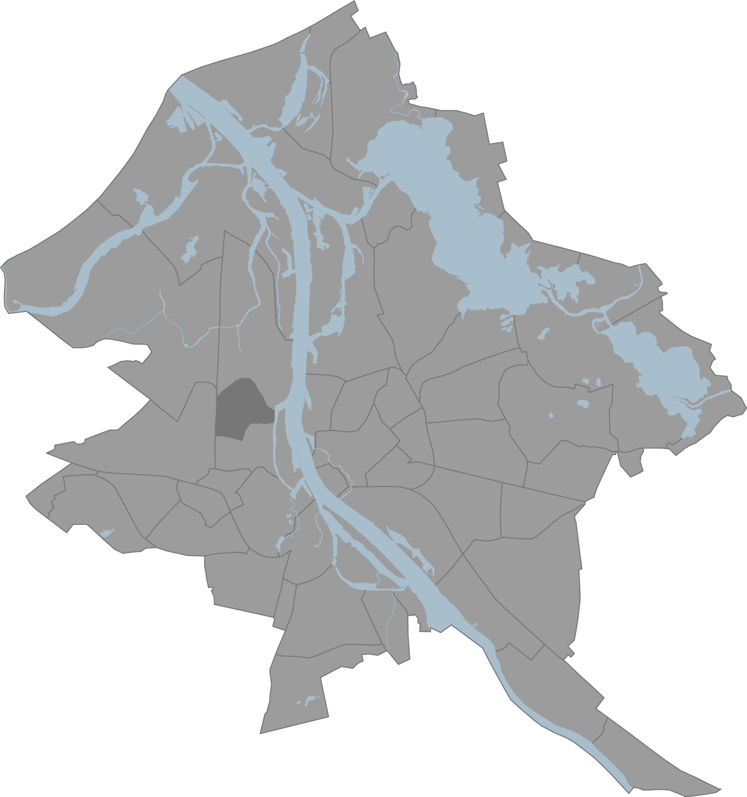 A map of Riga, Latvia with the eponymous commune highlighted